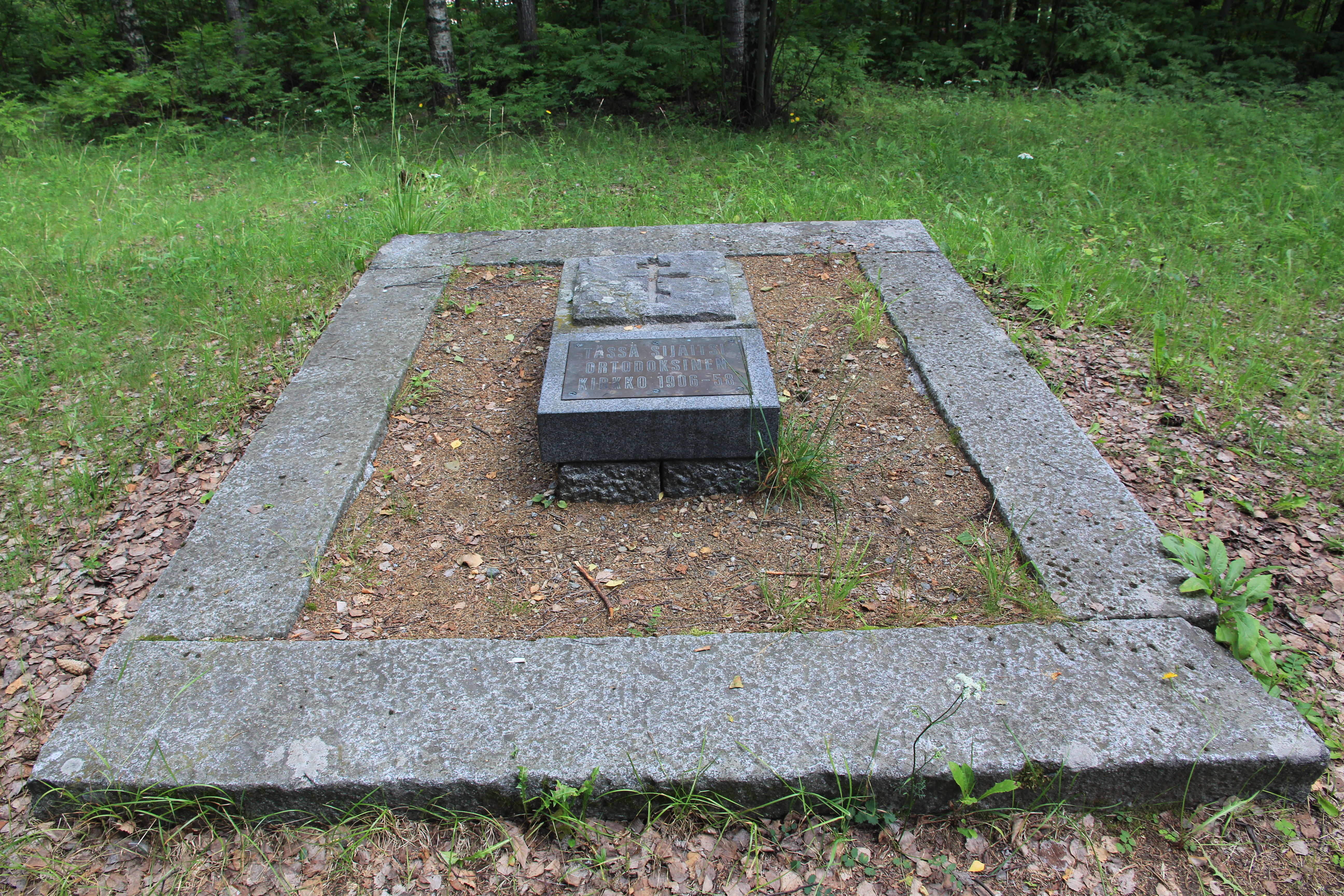 Memorial stone of Mikkeli orthodox Great Martyr Georgios the Victorious church. Originally built for the Russian garrison in Mikkeli in 1906, the church was demolished in 1958.